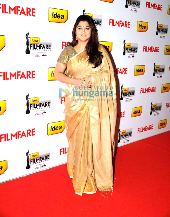 Kushboo at the 60th Filmfare Awards South ceremony